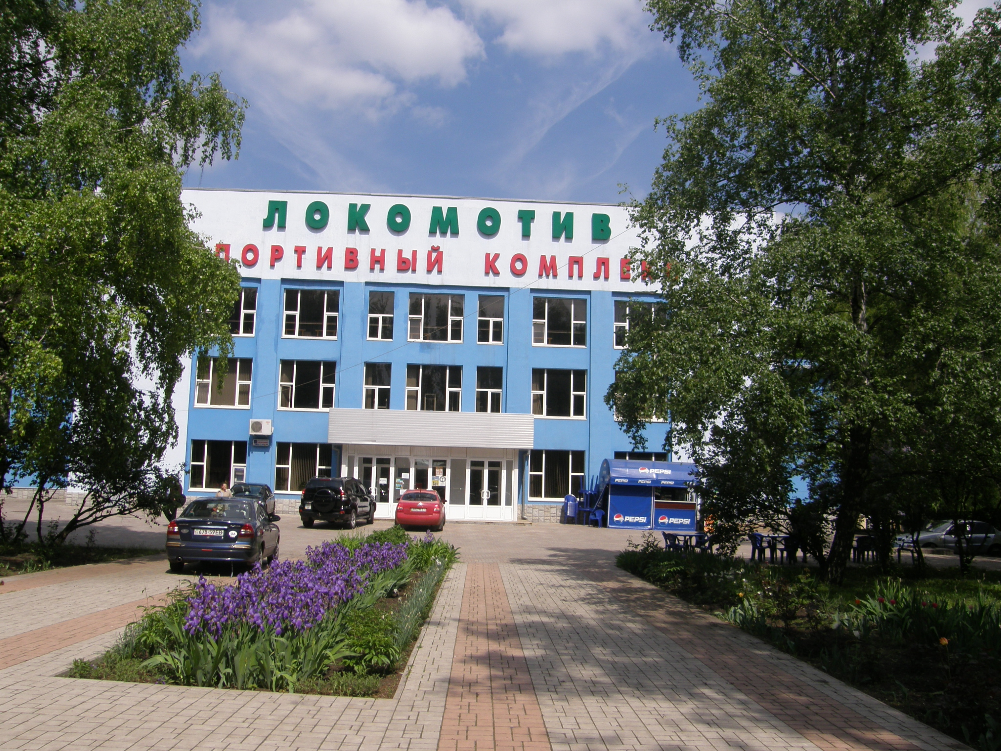 RSC Olimpiyskyi